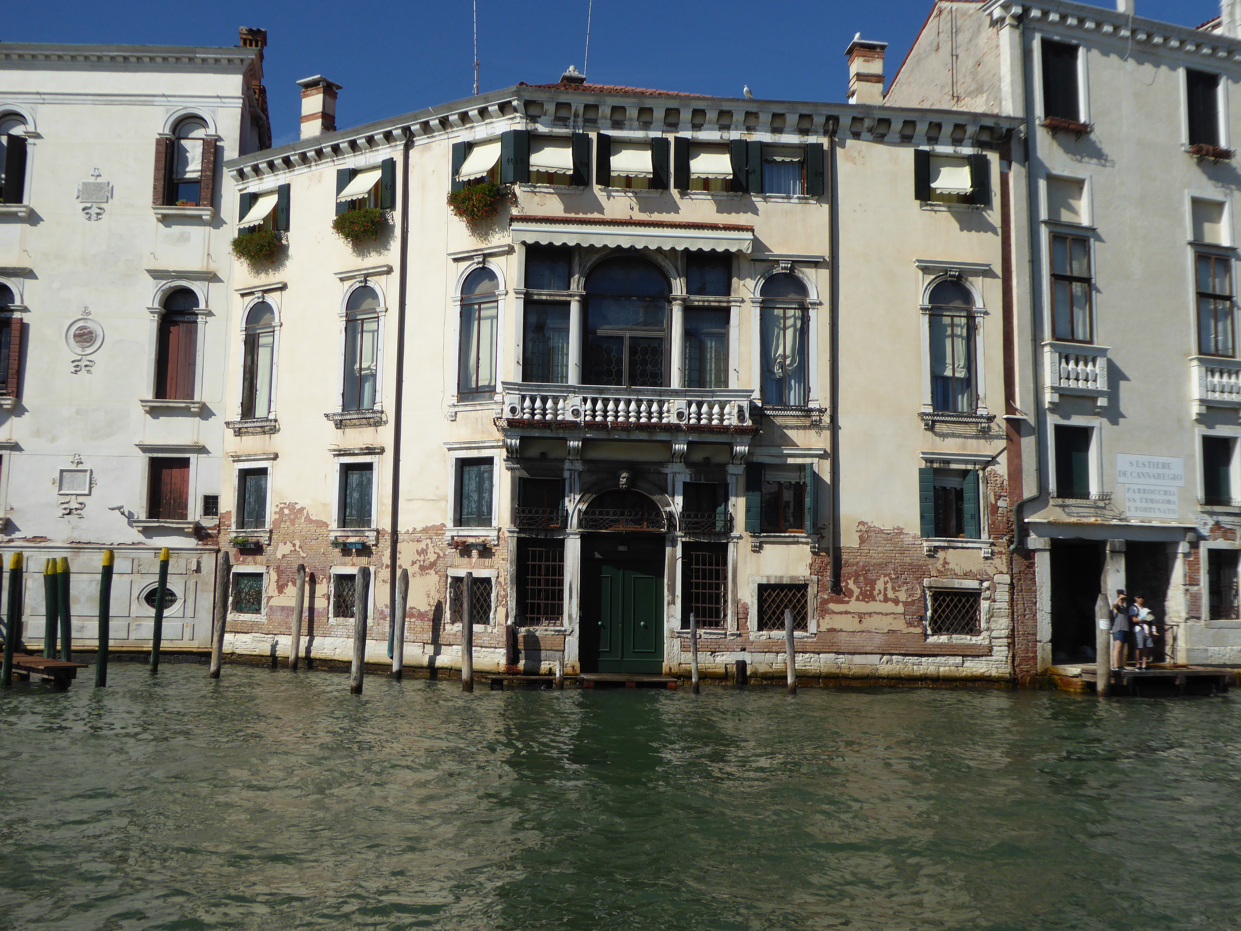 palaces of canal grande